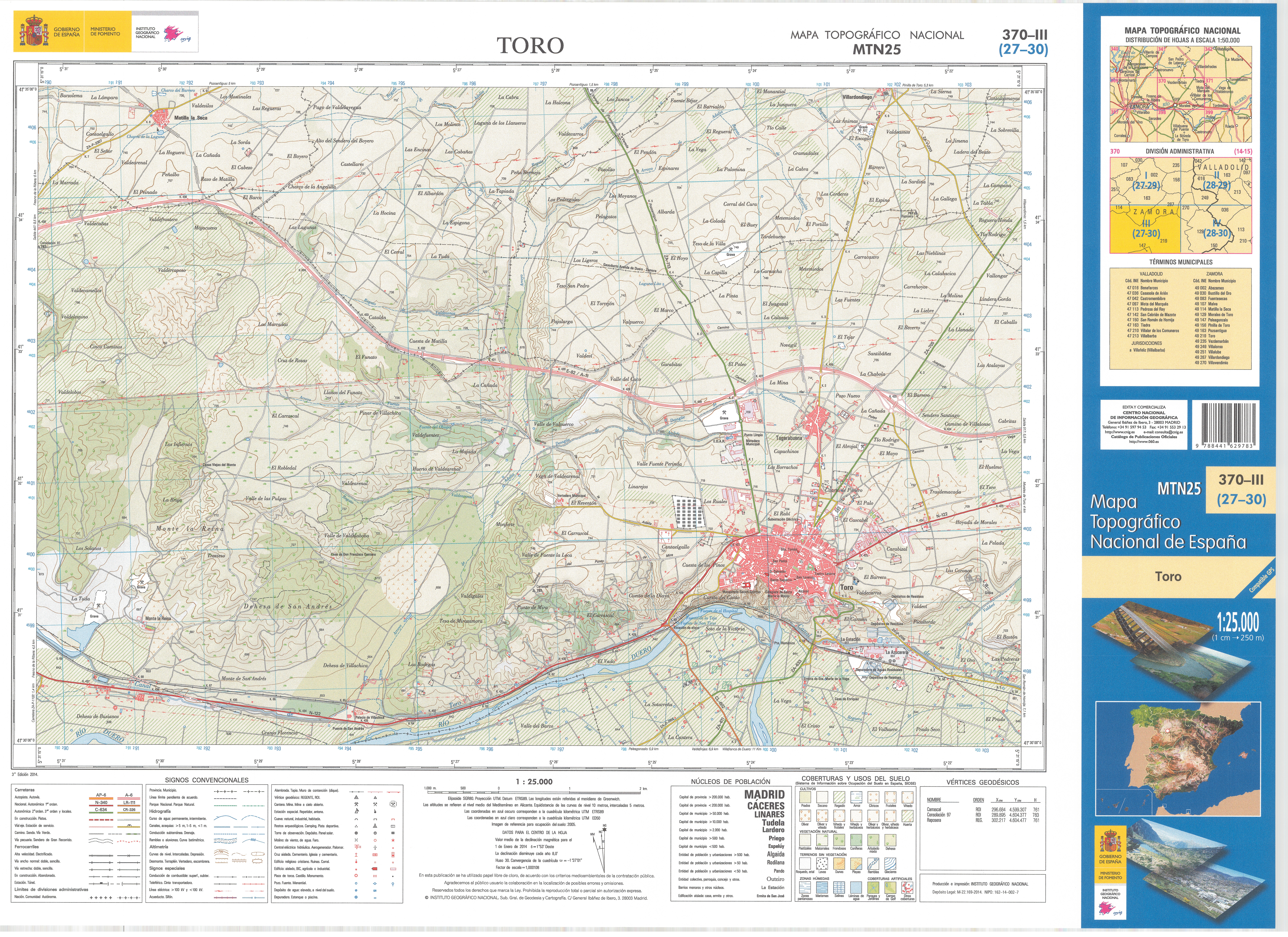 Fragment 0370c3 of the National Topographic Map of Spain in 2014 at a scale of 1:25000 printed and scanned with a resolution of 250 ppi. It shows Toro.